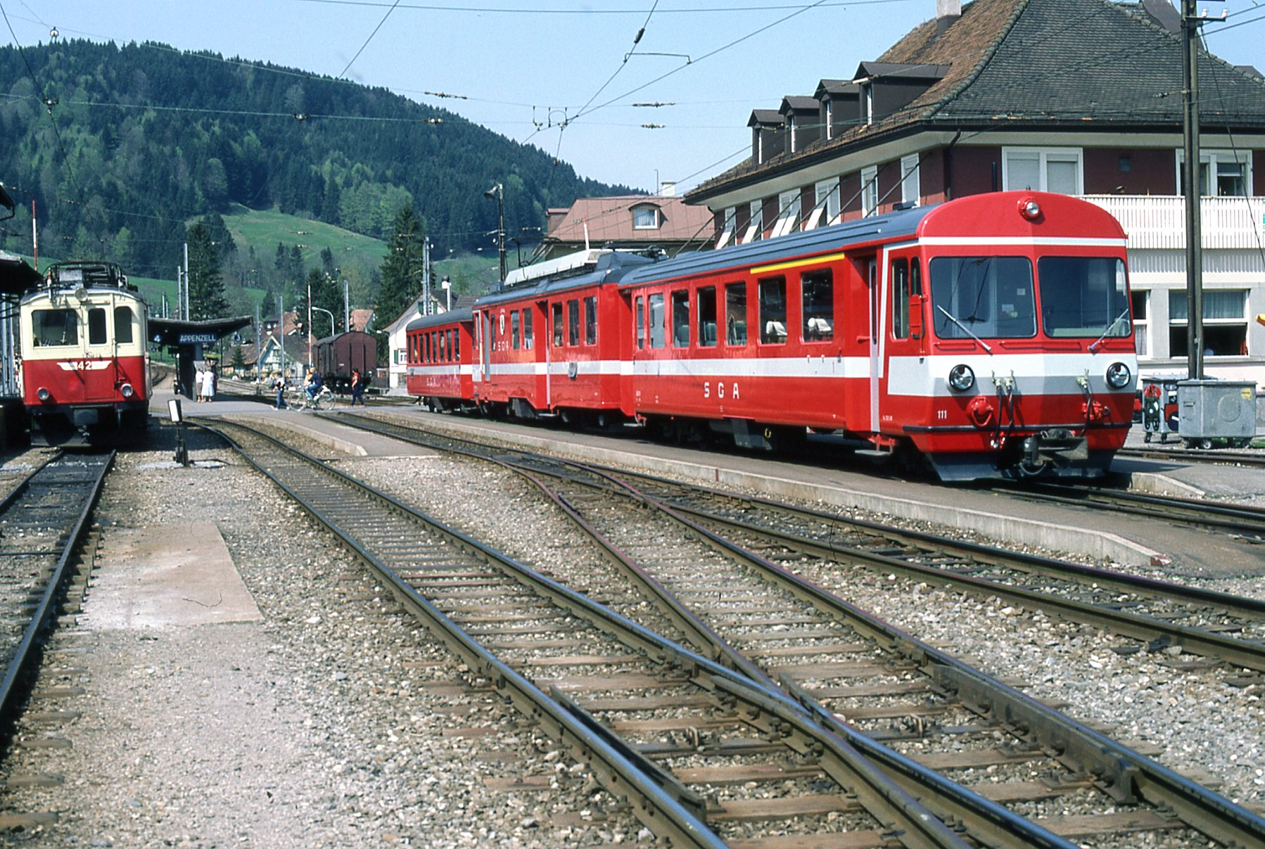 Photo: Trams aux Fils.